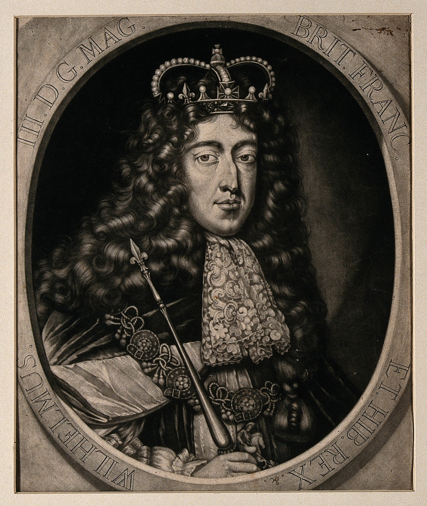 King William III of England, also known as William of Orange. Iconographic Collections Keywords: Abraham Blooteling; Peter Schenk; Royalty; name III